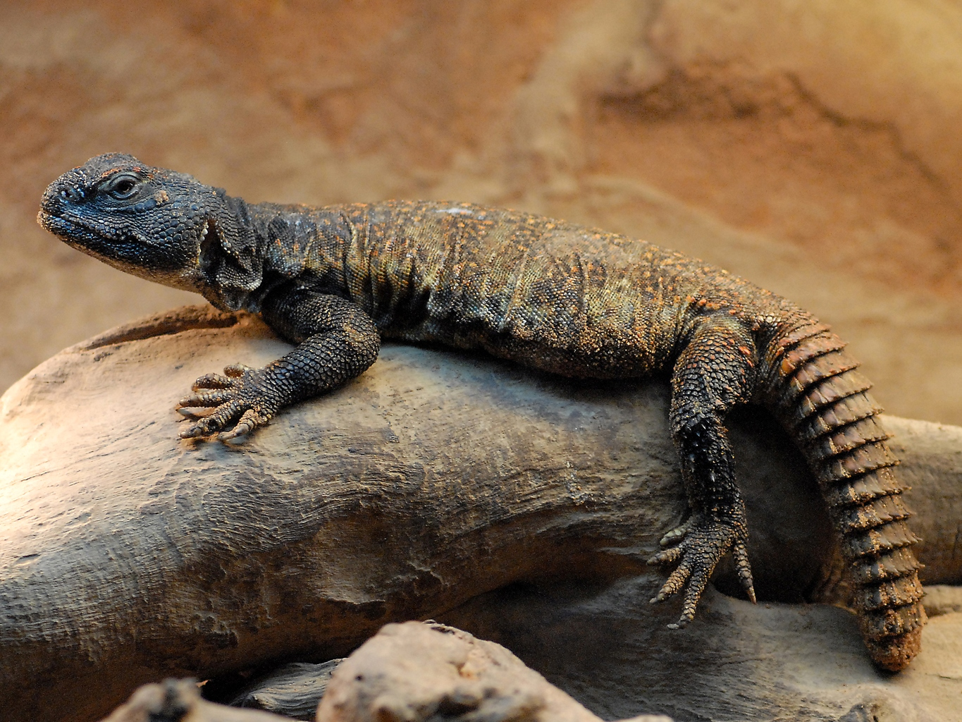 Spiny-tailed lizard Uromastyx acanthinura